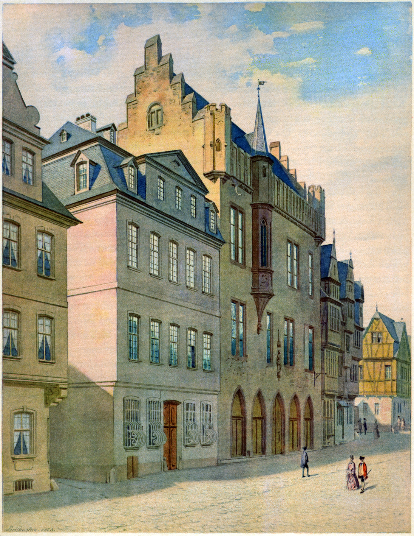 Frankfurt on the Main: The Schoenemannsche Haus (House of Schoenemann) at the Großer Kornmarkt (Large Grain Market); historicising depiction of a state before 1789, to the right the Große Stalburg (Great Stalburg)